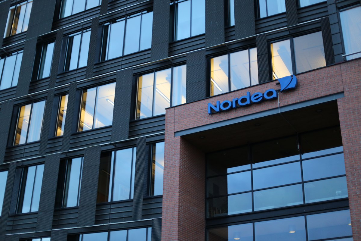 Nordea bank building in Helsinki. Original 5472x3648 pix.